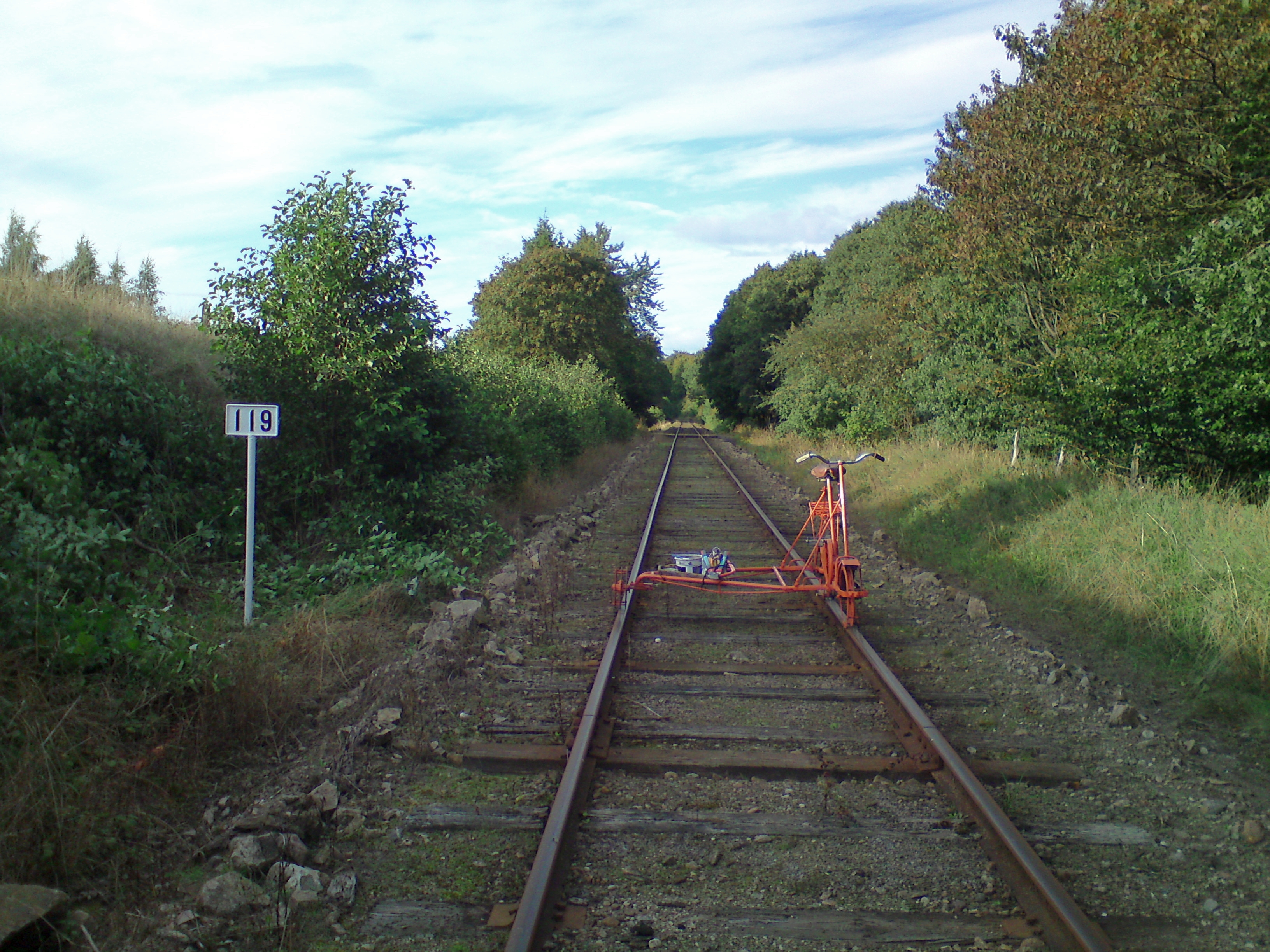 Kilometer pole